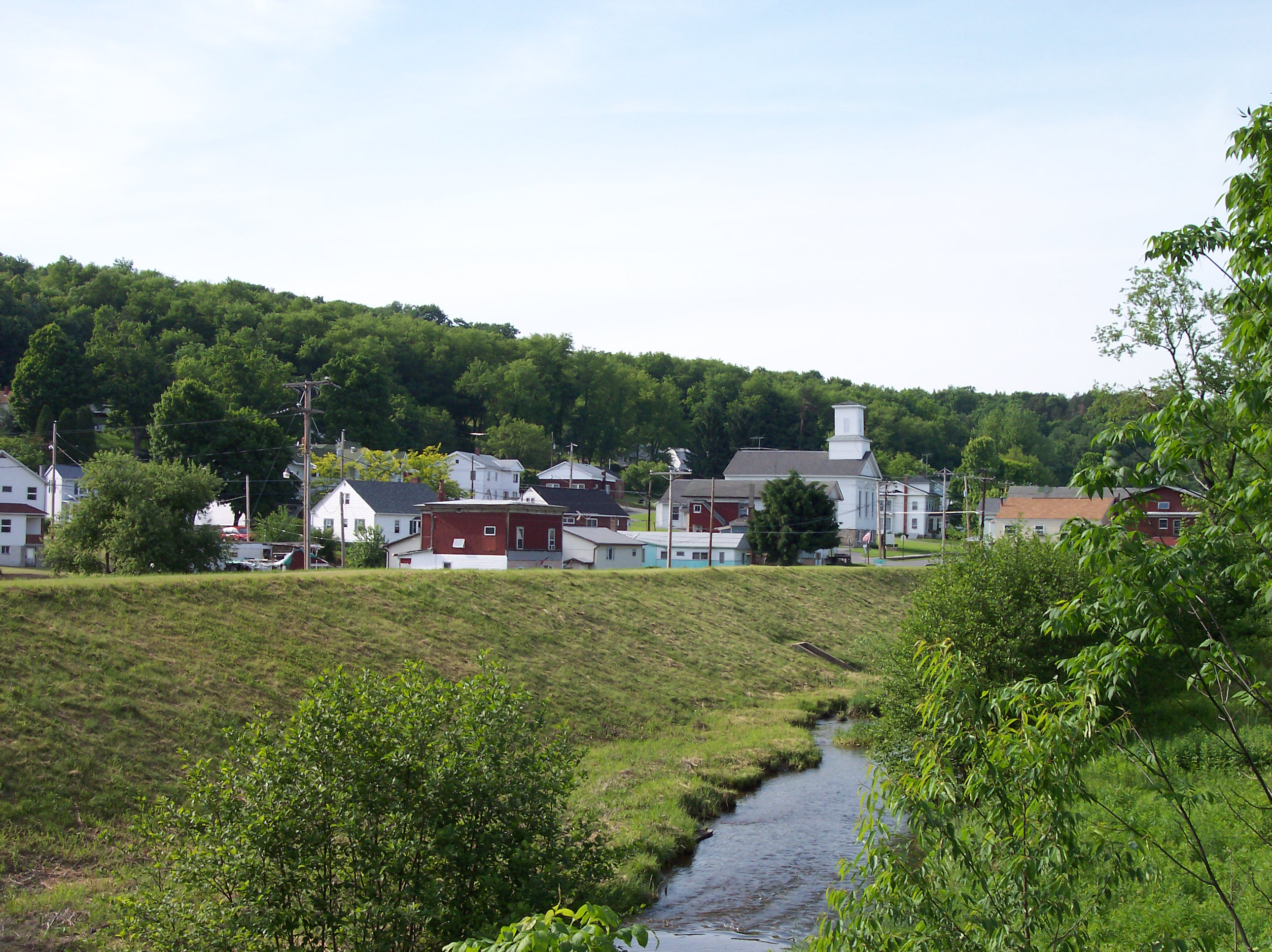 Description:Picture is of Cherry Tree taken along Cush Cushion Creek and the flood control levee. Visible in the picture is Front Street and the Presbyterian church. Author: Picture taken by Drax Felton.